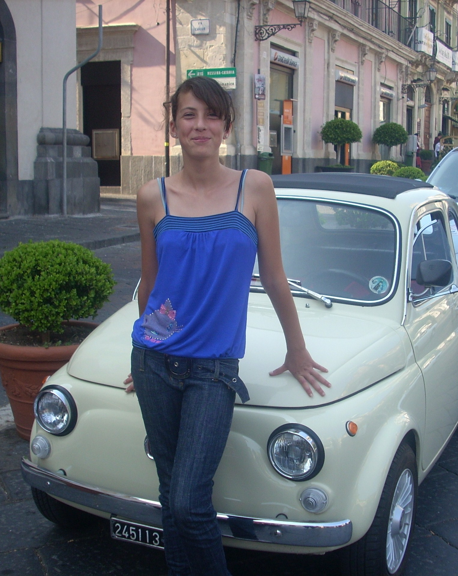 Sicilian teenage girl with a Fiat 500, wearing tops.